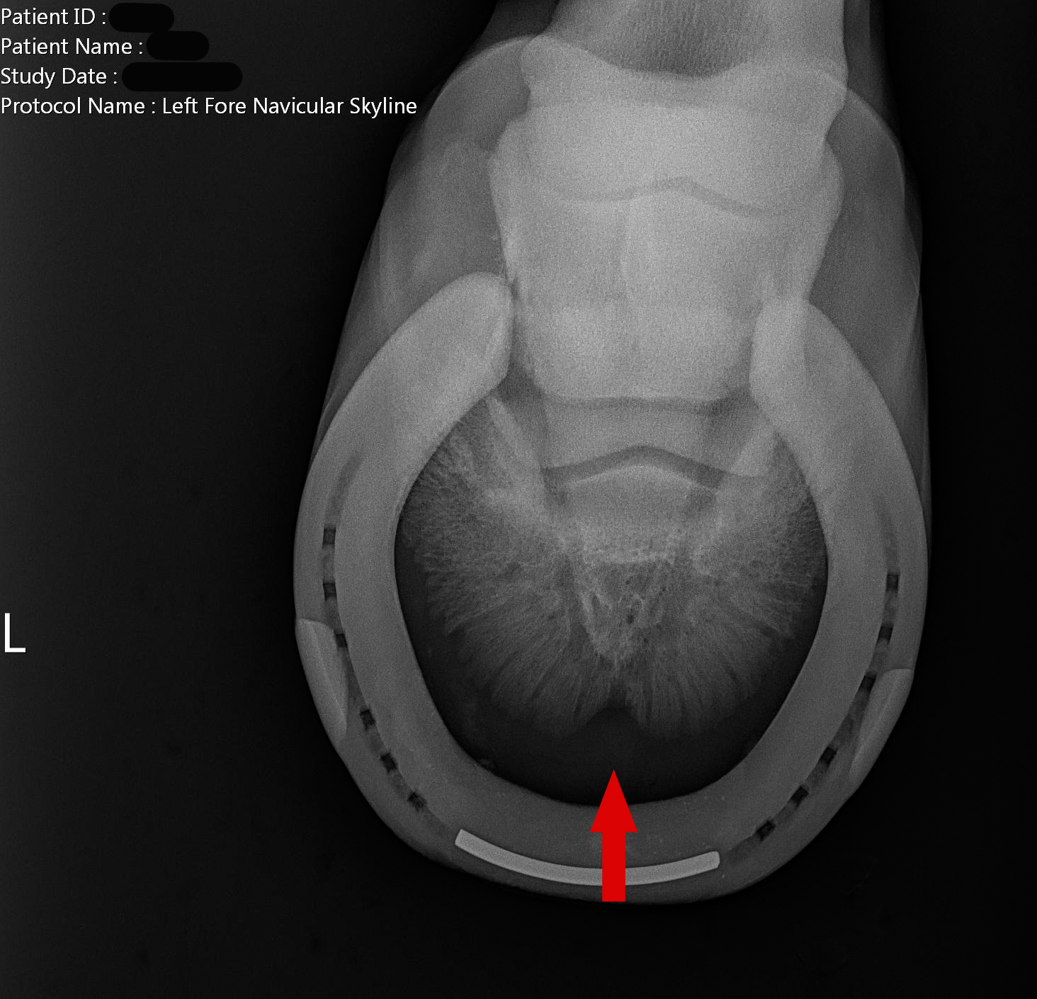 Deformed hoof bone of a 4 year old thoroughbred mare in regard to horn pillar